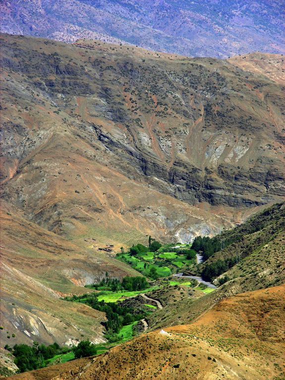 Valley in Atlas mountain, Morocco